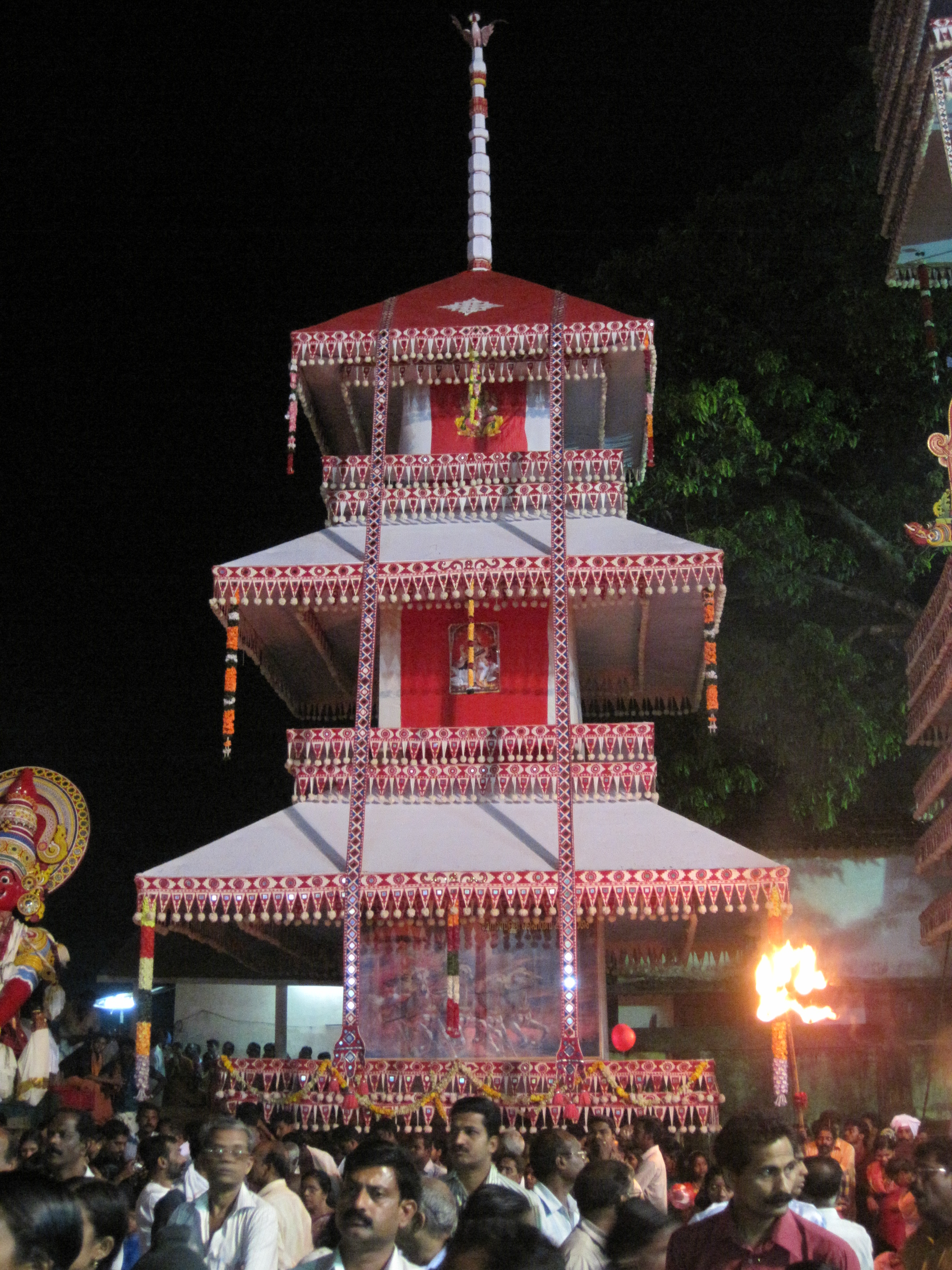 There Offered to Chettikulangara devi Temple